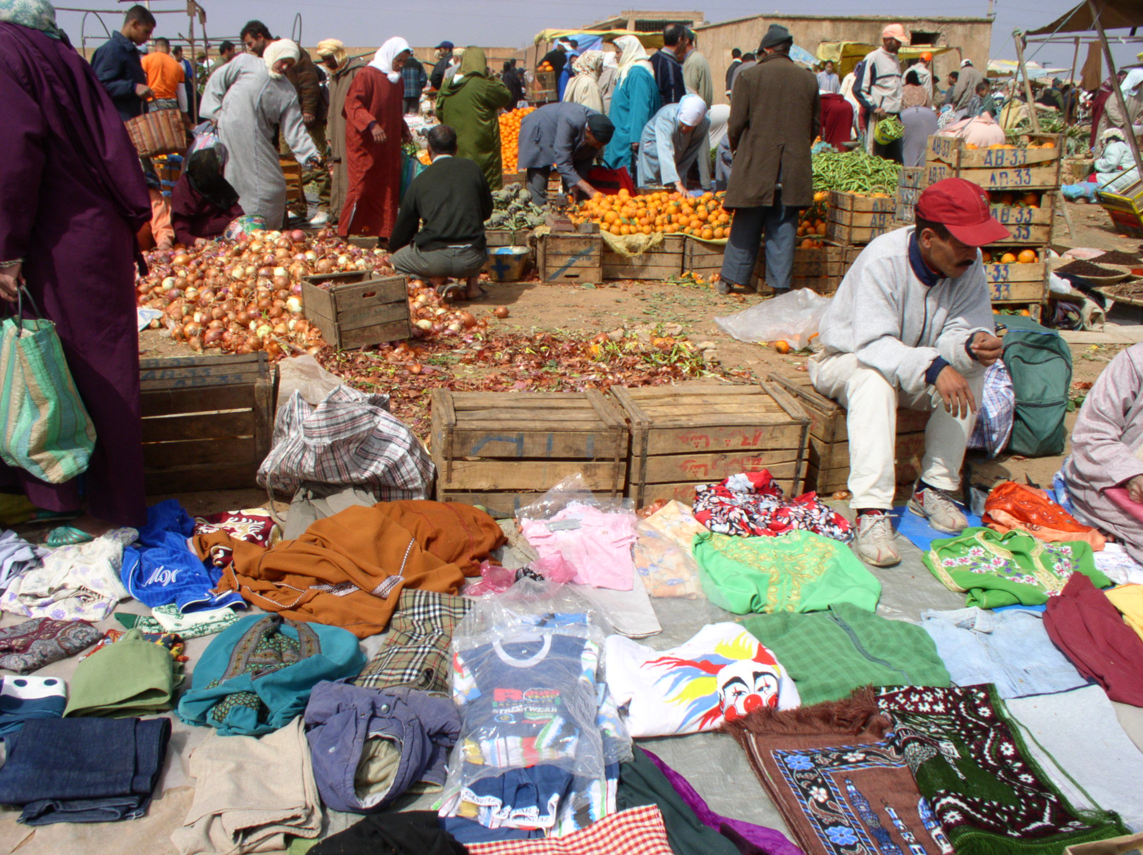 Souk of Friday, Sidi Yahya, Oujda, MOROCCO